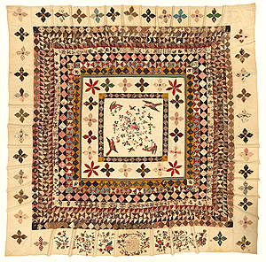 The Rajah Quilt was created by convict women on board the ship Rajah in 1841. It was given to the governors wife and is now in a museum in Australia. It is part of the National Gallery of Australia’s Australian textiles collection